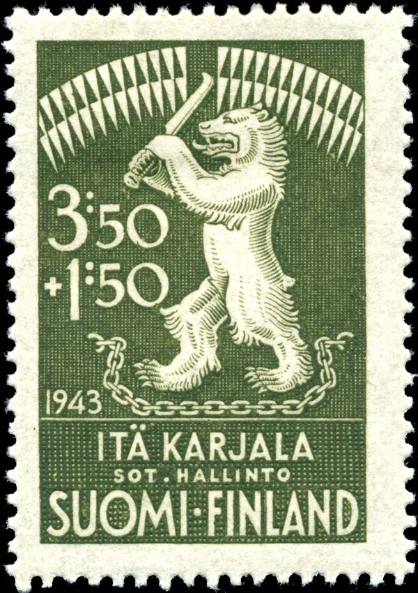 Semi-postal stamp of Karelia, Finnish occupation, 1943